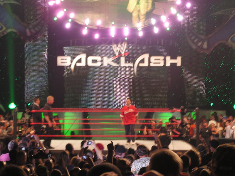 Shane McMahon at WWE Backlash 2007 Category:Professional wrestling free use media